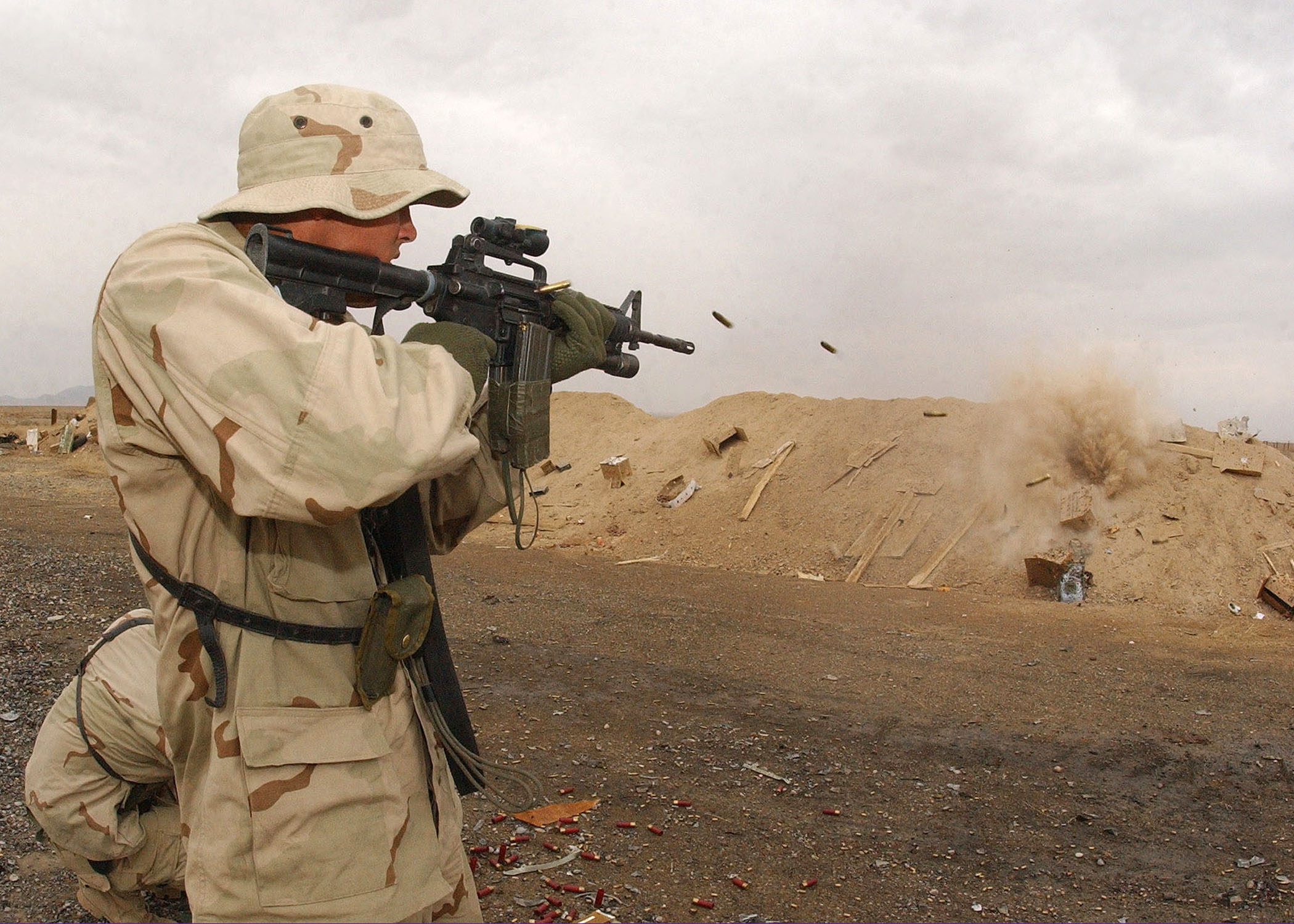 020109-N-2383B-506 Kandahar, Afghanistan (Jan. 9, 2002) -- A U.S. Marine from 26th Marine Expeditionary Unit (Special Operations Capable) practices small arms fire at the firing range set up near Kandahar, Afghanistan. U.S. Sailors and Marines are in Afghanistan in support of Operation Enduring Freedom. U.S. Navy photo by Chief Photographer's Mate Johnny Bivera. (RELEASED)